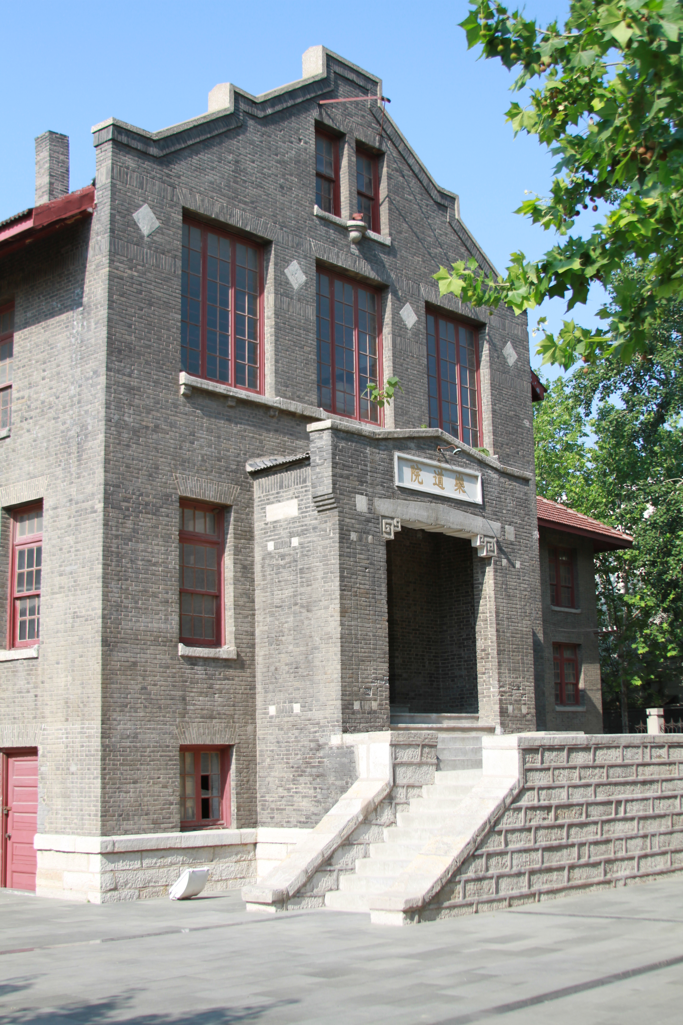 Photograph of one of the main buildings of the Weihsien Internment Camp, Weifang, Shandong, China.